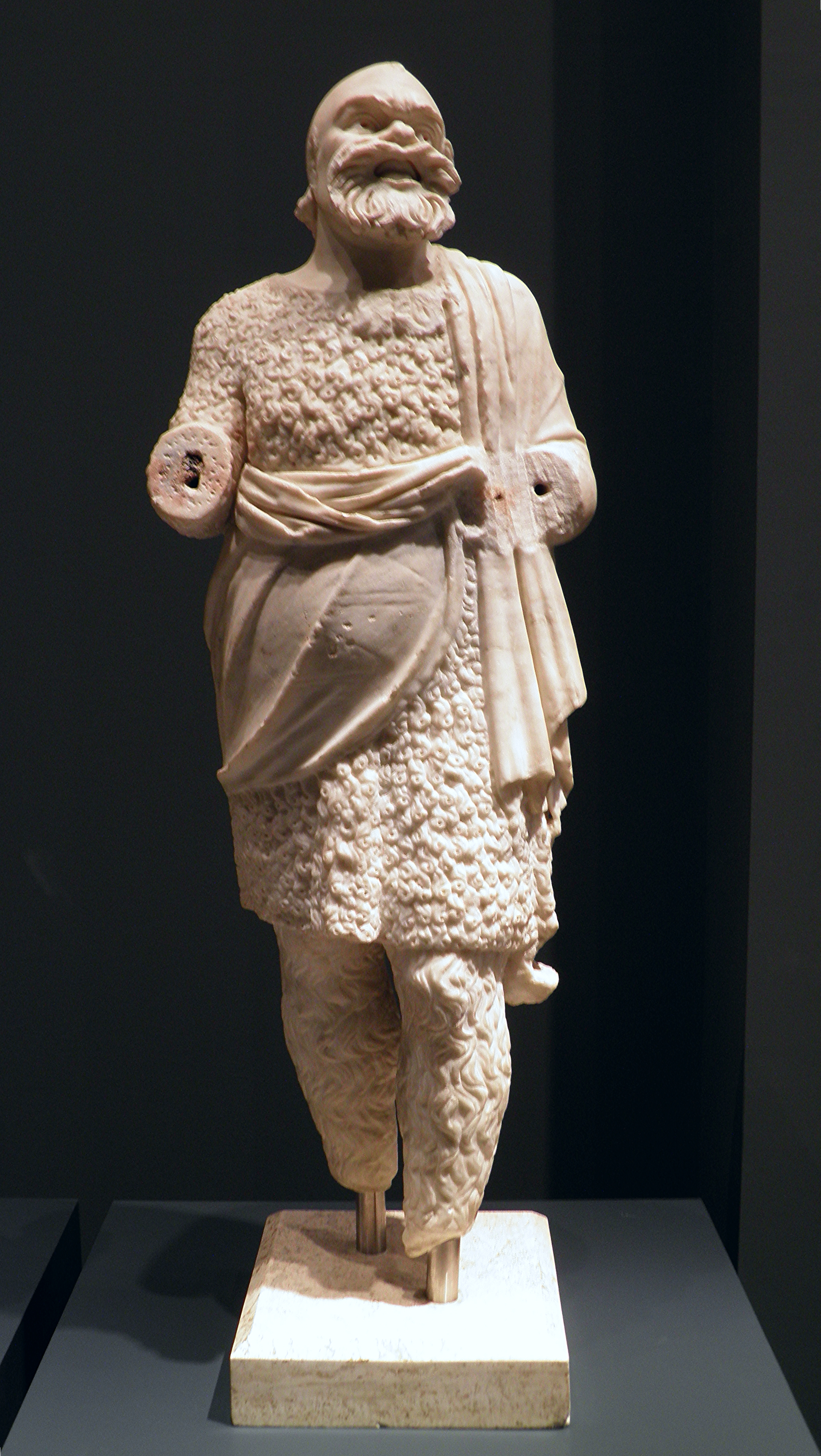 The figure of Papposilenos, the aged Silenus who was tutor to Dionysus and who in Satyr dramas plays the role of leader of the chorus, is portrayed here with a theatre mask, a coat simulating the lambskin cloak, and hairy tights. The statuette’s ornamental nature suggests that is belong to the sculptural decorations of a villa.